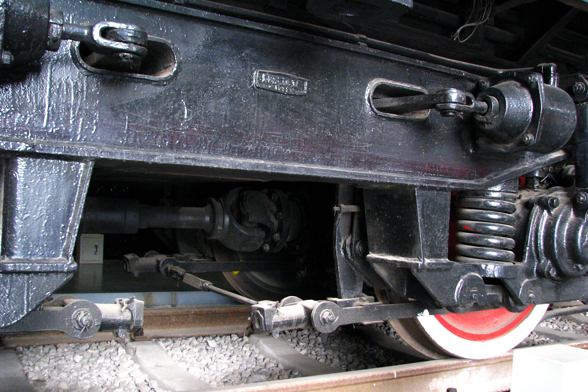 The bogie of China Railways DFH5 0001 diesel-hydraulic locomotive.